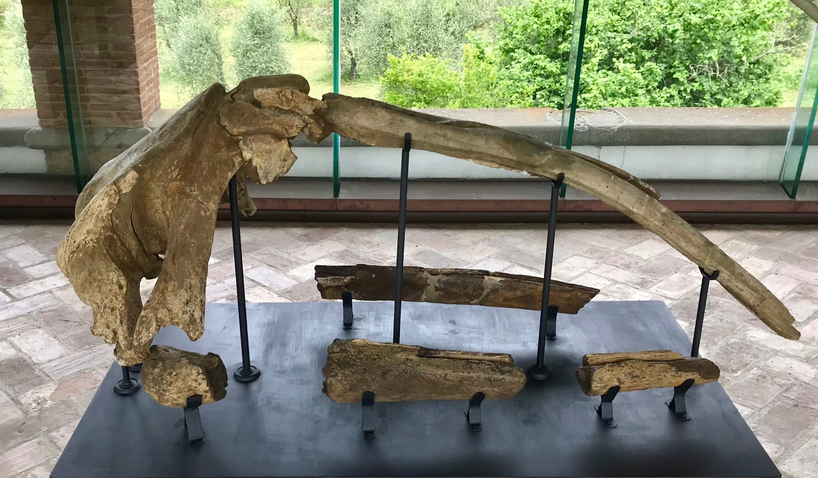 Fossil MSNUP I-12555, the holotype of Balaenula astensis, in the new cetaceans gallery at University of Pisa's Natural History Museum.